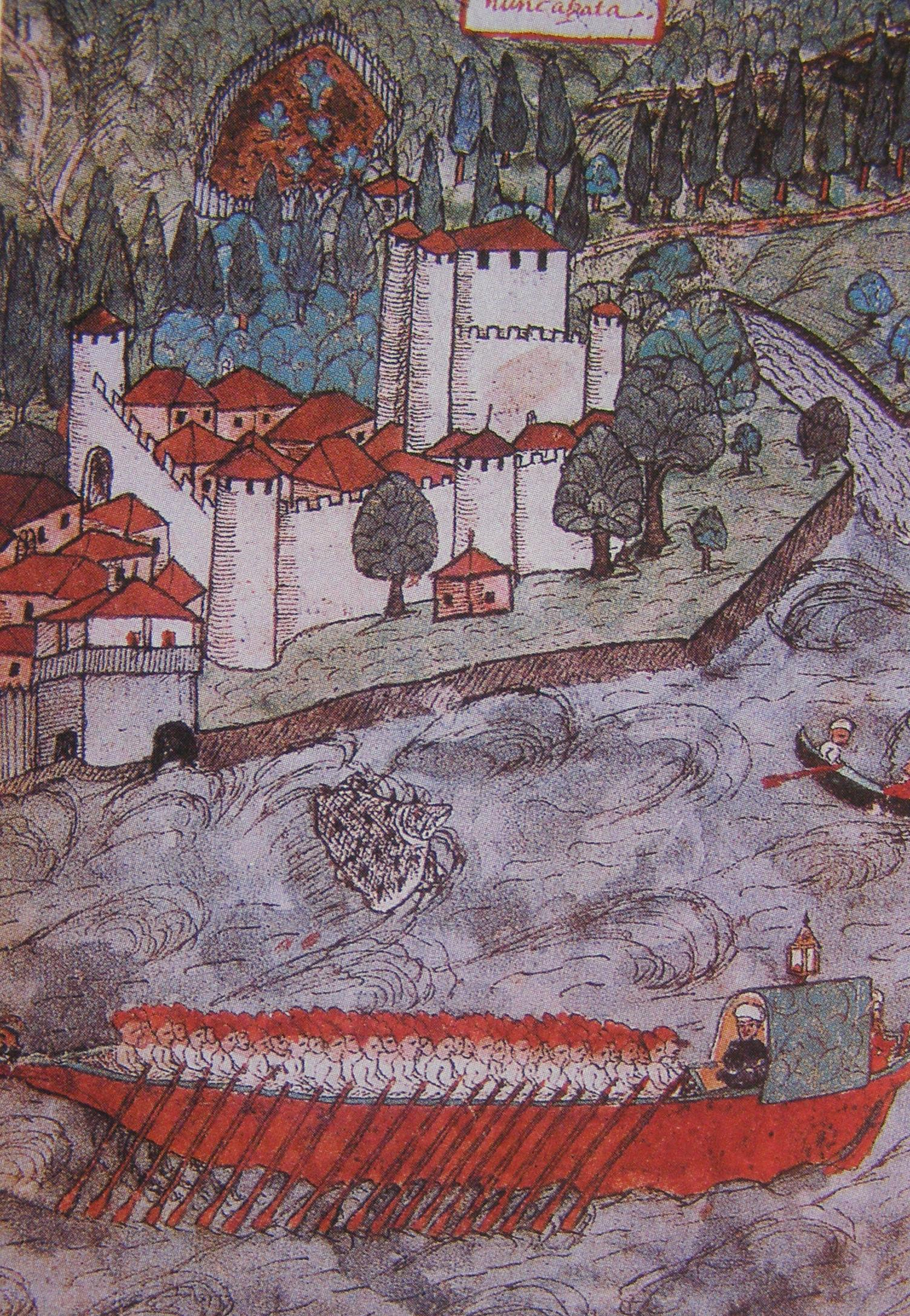 Ottoman Galley in the Hymn-Book of Ferenc Watthay